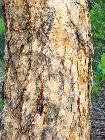 Yellow Bloodwood, Corymbia exemia at Galston Gorge